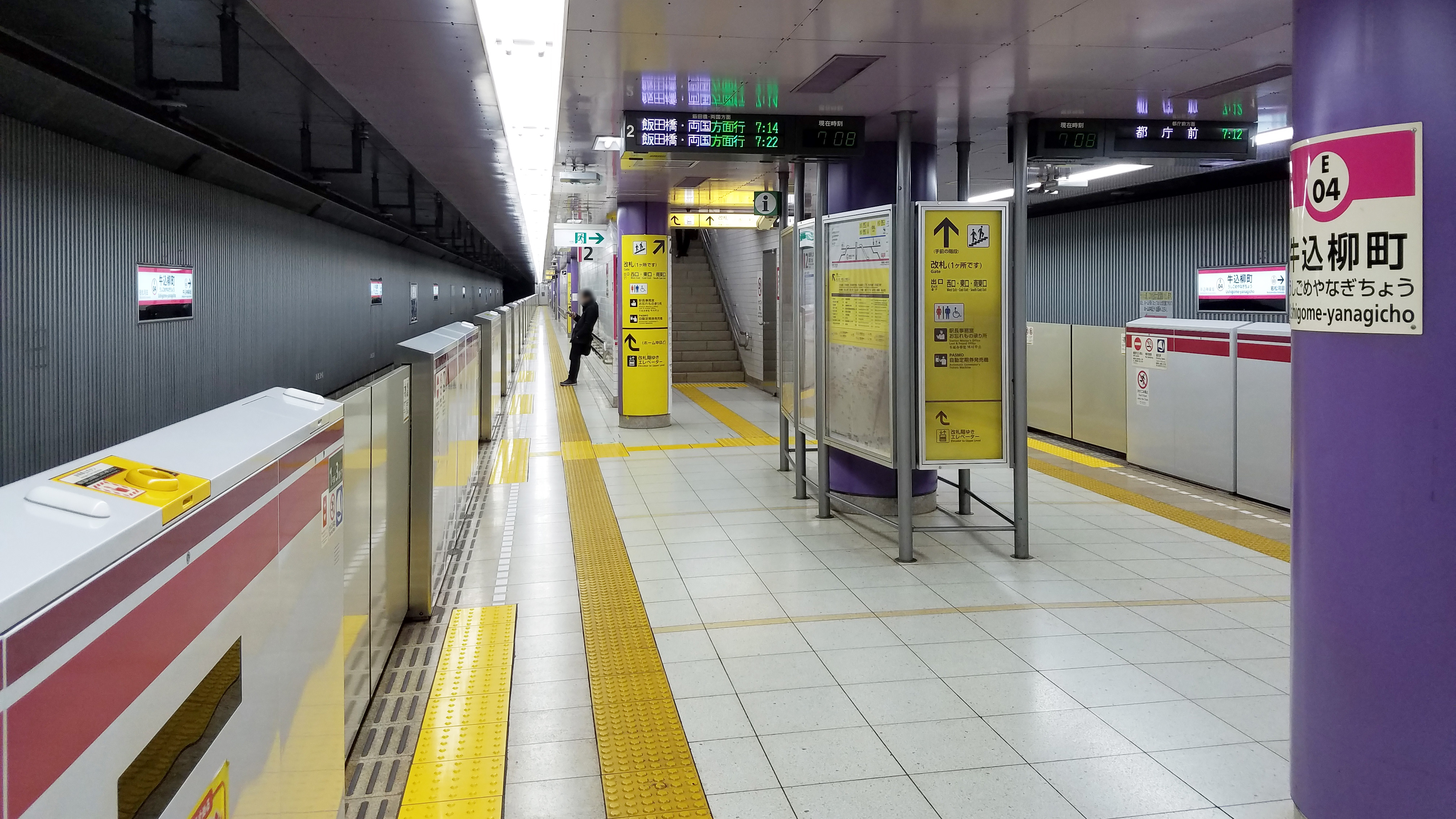 The platform at Ushigome-yanagichō Station on the Toei Ōedo Line in Shinjuku city, Tokyo, Japan